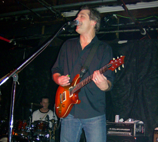 George McConnell performing at Hal & Mal's in Jackson, Mississippi on December 27, 2008